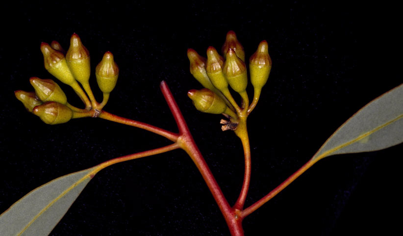 Flower buds of Eucalyptus striaticalyx at Lake Anneen, south of Meekatharra towrds Cue on the Great Northern Highway